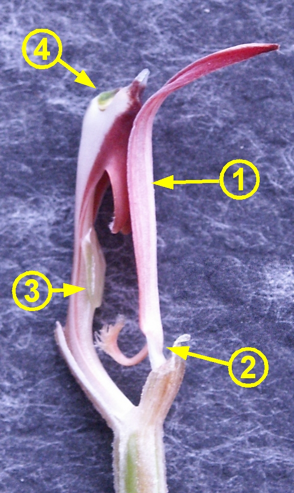 Pterostylis coccinea, sepala and petala removed (1) - Lip, Lippe (2) - hinge, Gelenk (3) - stigma, Narbe (4) - pollinia, Pollinien